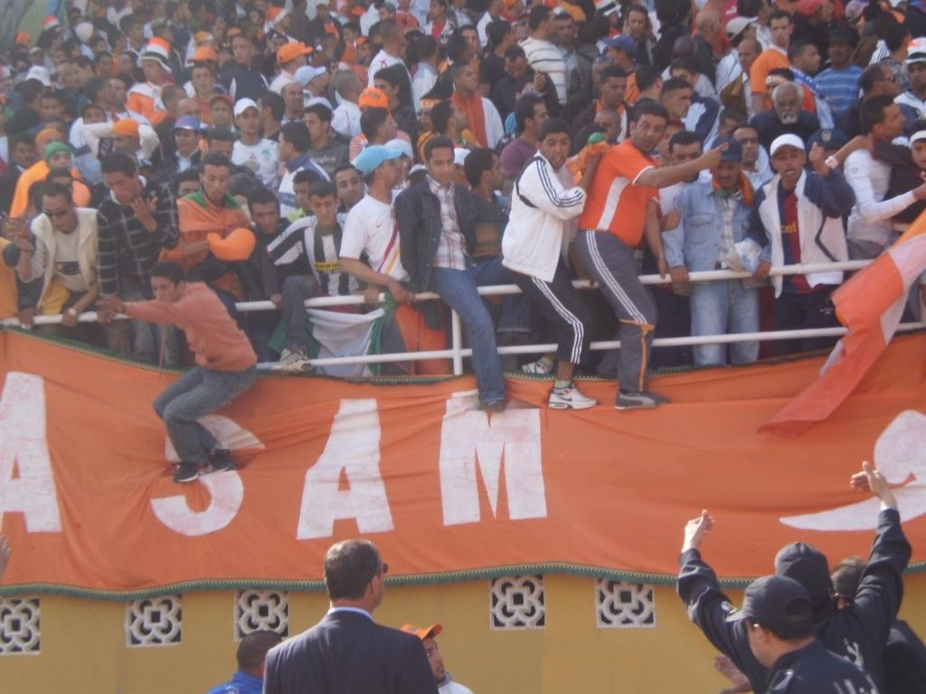 USM Annaba fans invading the Blida Stadium